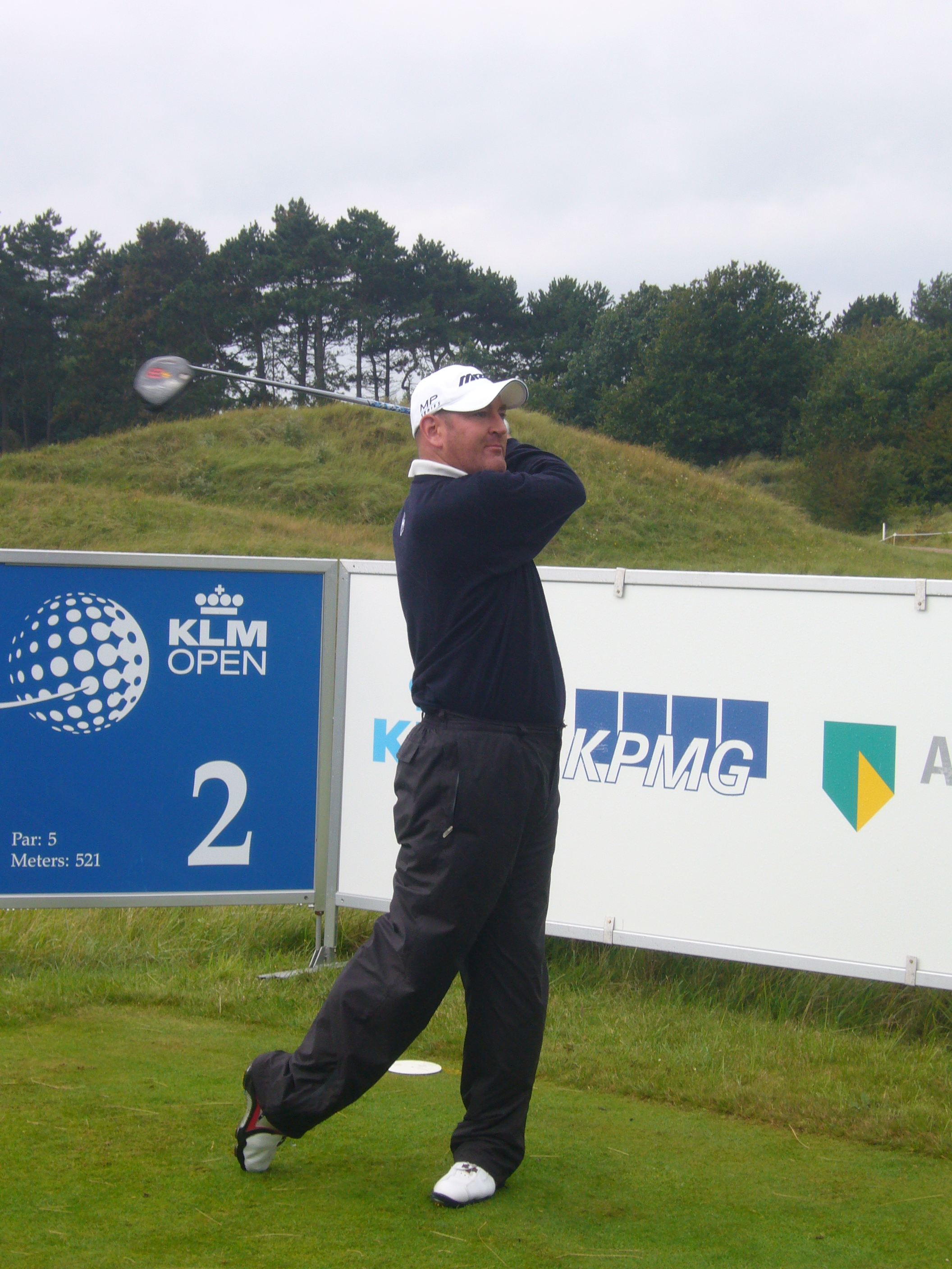 Lee S. James, English professional golfer at the KLM Open 2008, Kennemer Golf & Country Club